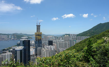 One Island East progress